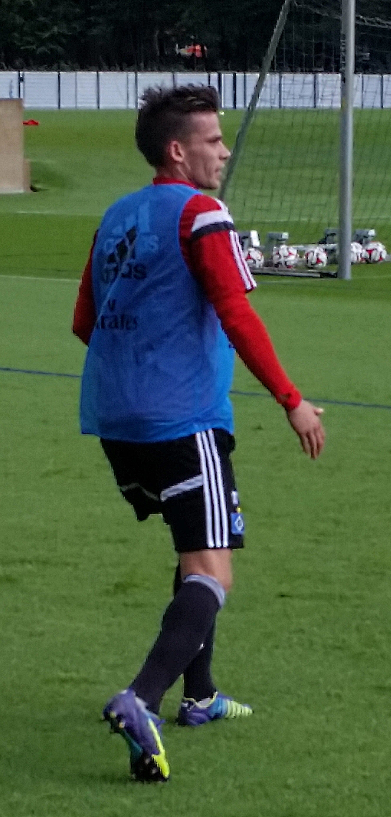 Zoltan Stieber at HSV-Training